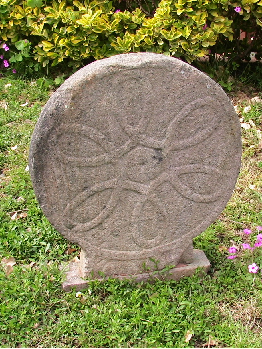 Hilarri in Bidarray, Lower Navarre, French Basque Country with 6-sided rosette pattern.